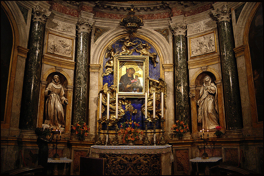 Chigi Chapel, with the Madonna del Voto and Sts. Bernardino and Mary Magdalene. Siena Cathedral.